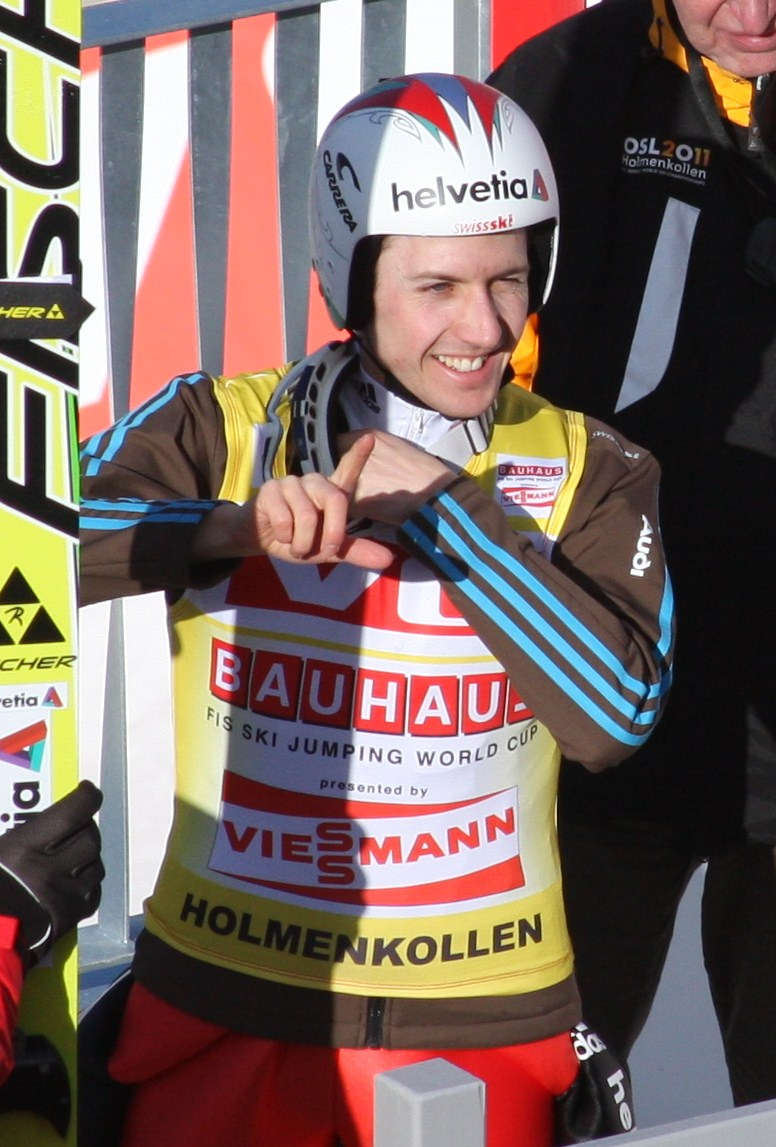 Simon Ammann, Switzerland, after winning the WC tournament in Holmenkollen, Oslo 14 march 2010